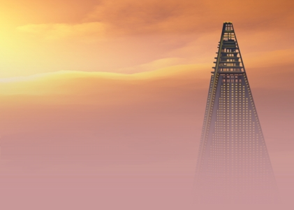 Interpretation of what the Ryugyong Hotel (Pyongyang, North Korea) will look when finished in 2012. Created in Adobe Photoshop CS2, 1 hour of work. 简体